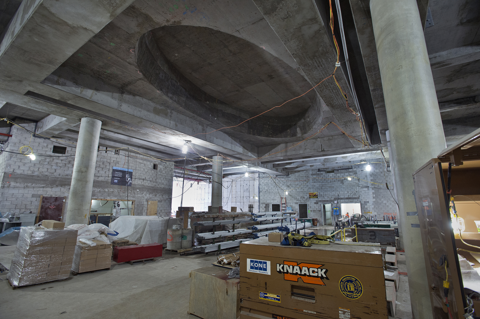 Progress continues on the extension of the No. 7 line to 34th Street and Eleventh Avenue in Manhattan. This photo shows construction progress as of June 2013. Photo: Metropolitan Transportation Authority / Patrick Cashin